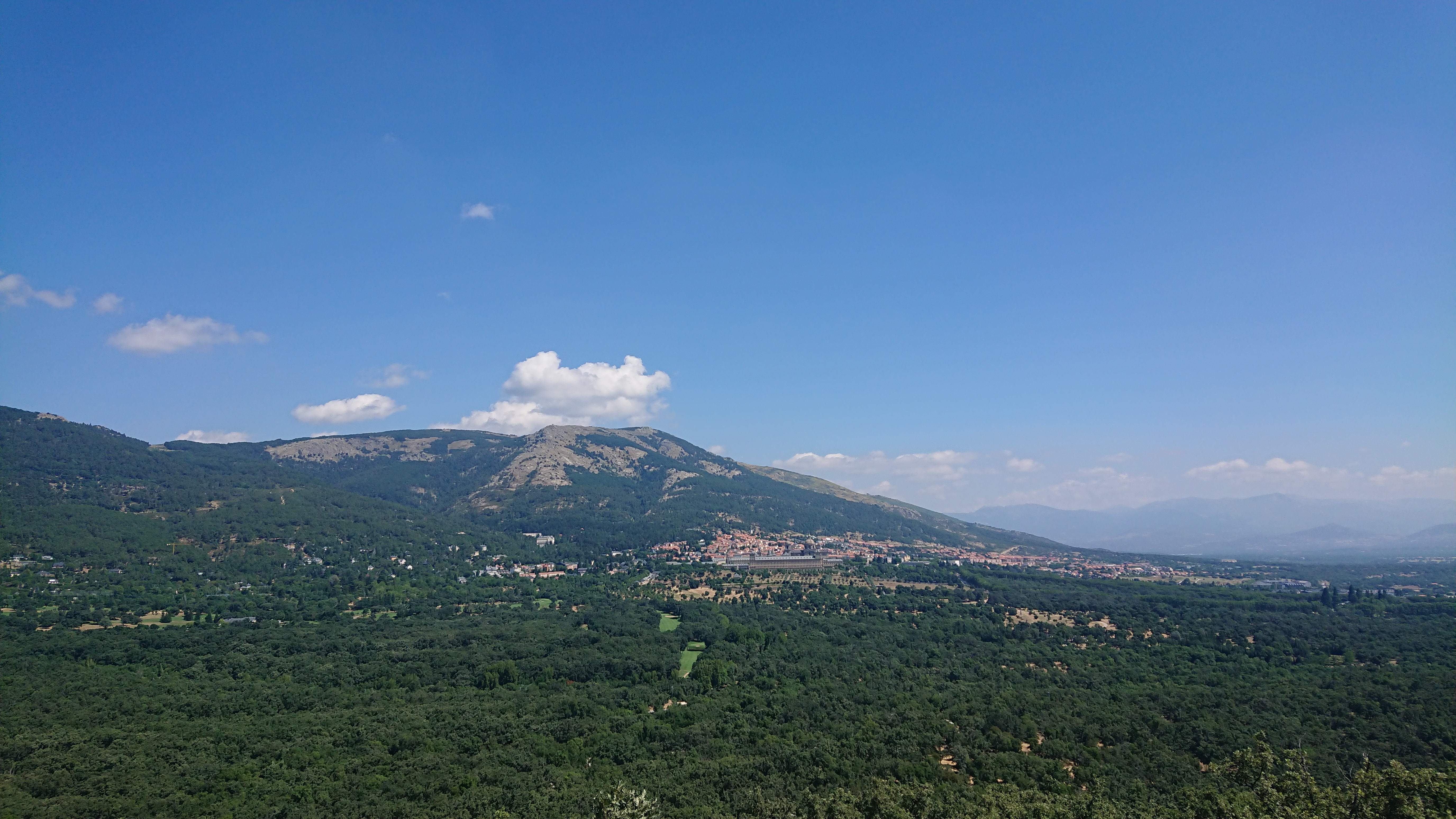 View of El Escorial from the Seat of Philip II, Madrid (Spain)